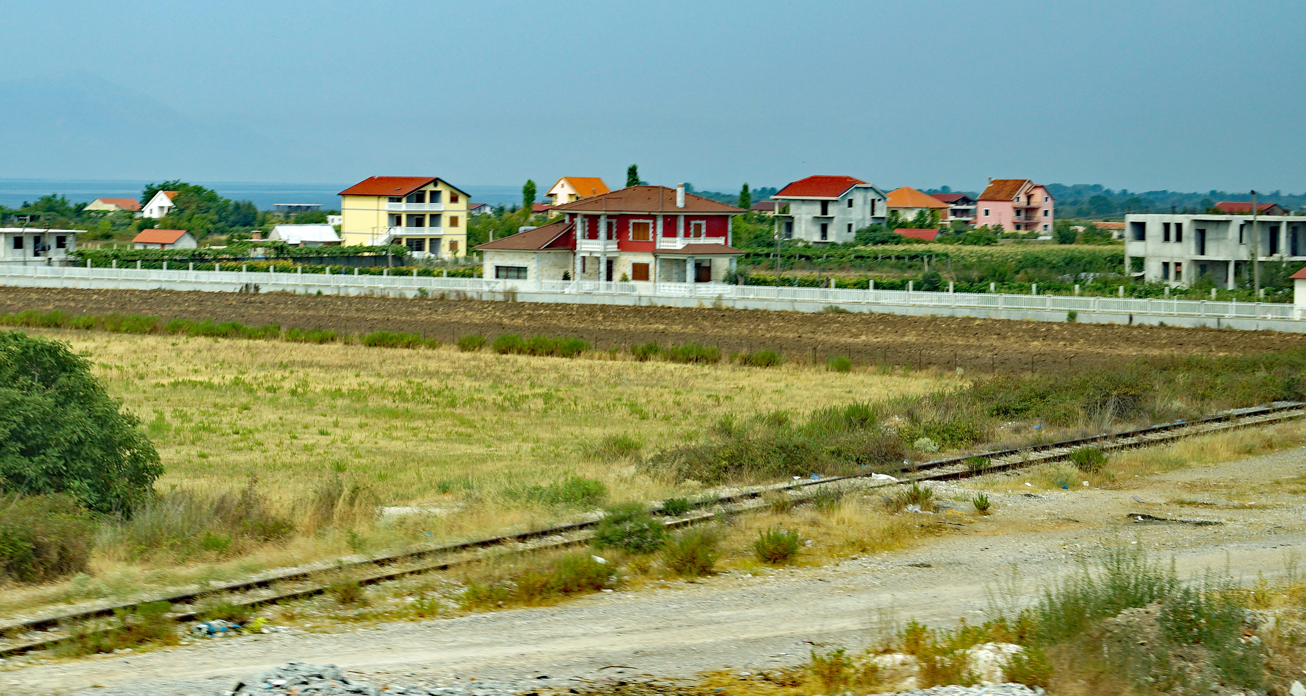 The railway linking Albania with Montenegro some kilometers north of Shkodra.